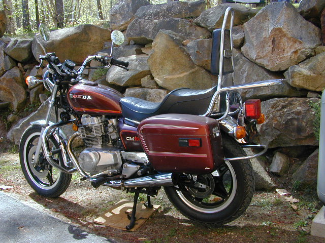 A 1979 Honda CM400T with original paint, and stripes*. The Sissy bar, cruser bar, and Back rack are aftermarket. Warmace 22:30, 25 June 2007 (UTC)